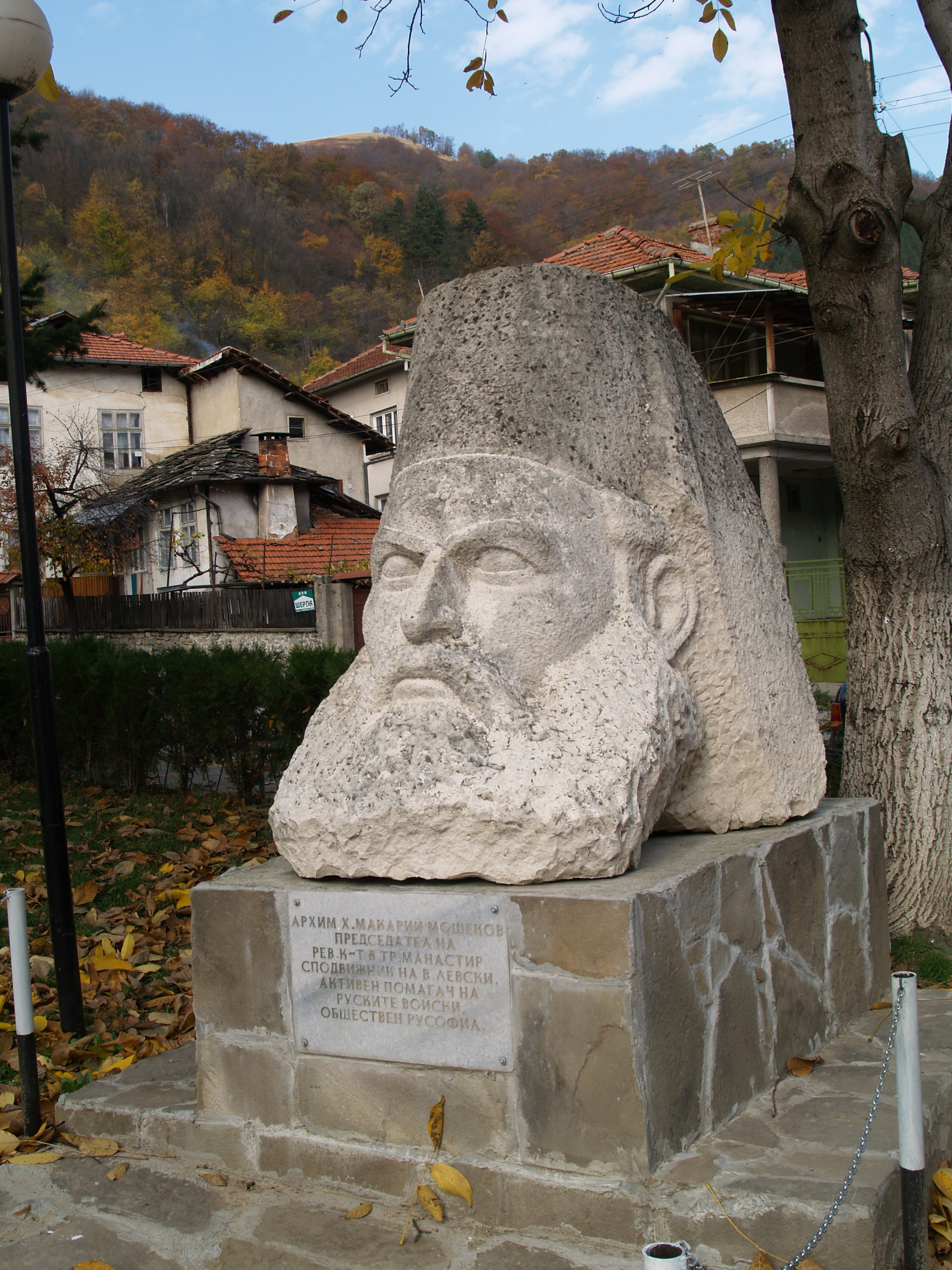 Memorial of archimandrite Makarius, Cherni Osam, Bulgaria